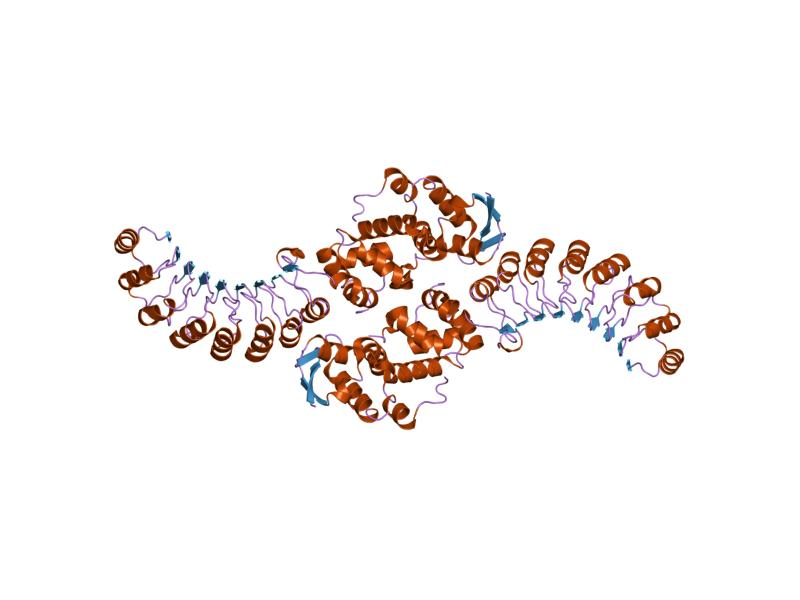 Cartoon representation of the molecular structure of protein registered with 1fs2 code.